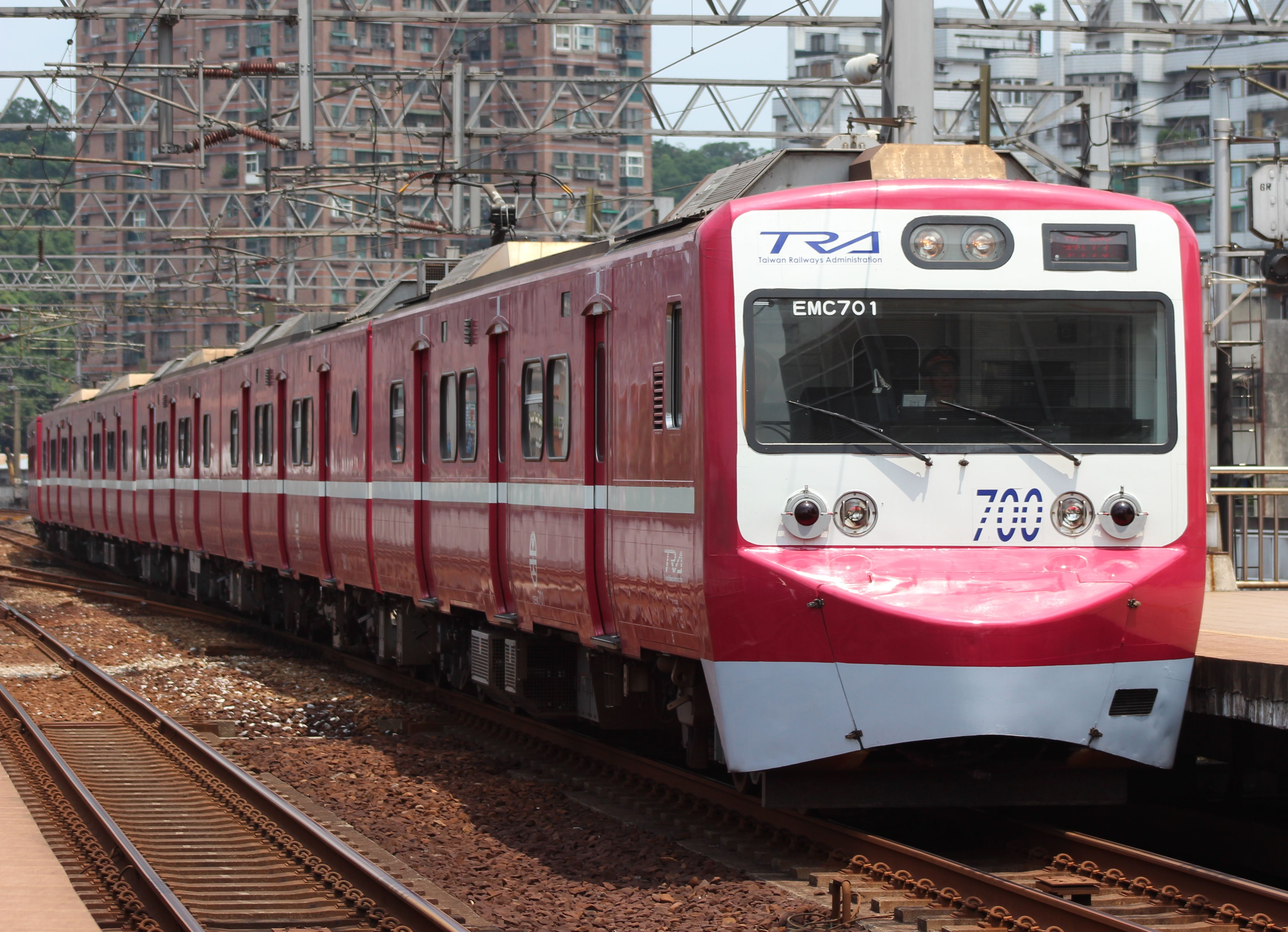 Taiwan Railway EMU700 series EMU at Xizhi Station